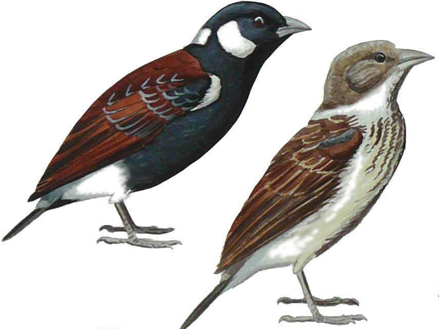 Chestnut-backed Sparrow-lark (Eremopterix leucotis) -Originally made by Risso Romain, Nice. I give full credit to him.